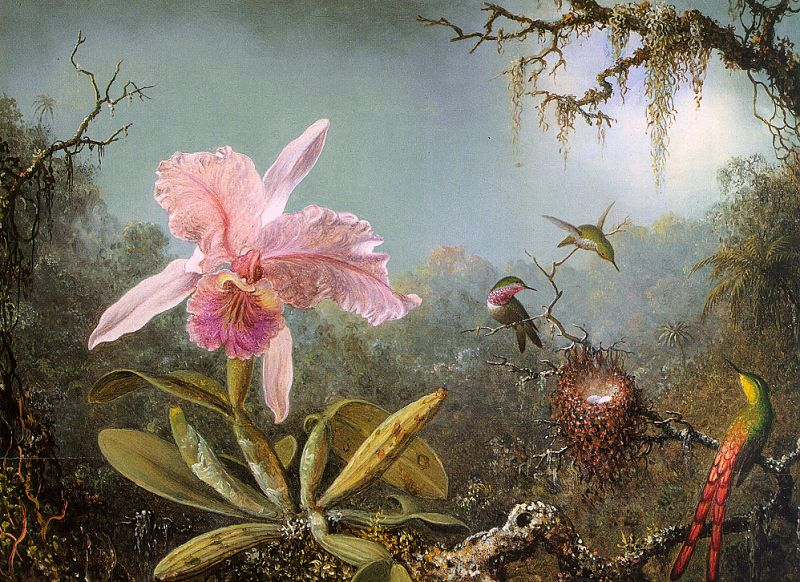 Martin Johnson Heade (1819–1904) Alternative namesMartin J. Heade; Martin Johnson Heed; Heade; m.j. headeDescriptionAmerican painterDate of birth/death11 August 18194 September 1904Location of birth/deathPennsylvaniaSt. AugustineWork locationNew England, New JerseyAuthority control : Q3123472 VIAF: 25407404 ISNI: 0000 0000 8104 7679 ULAN: 500000888 LCCN: n89656703 NLA: 35182345 WorldCat Cattelya Orchid and Three Brazilian Hummingbirds